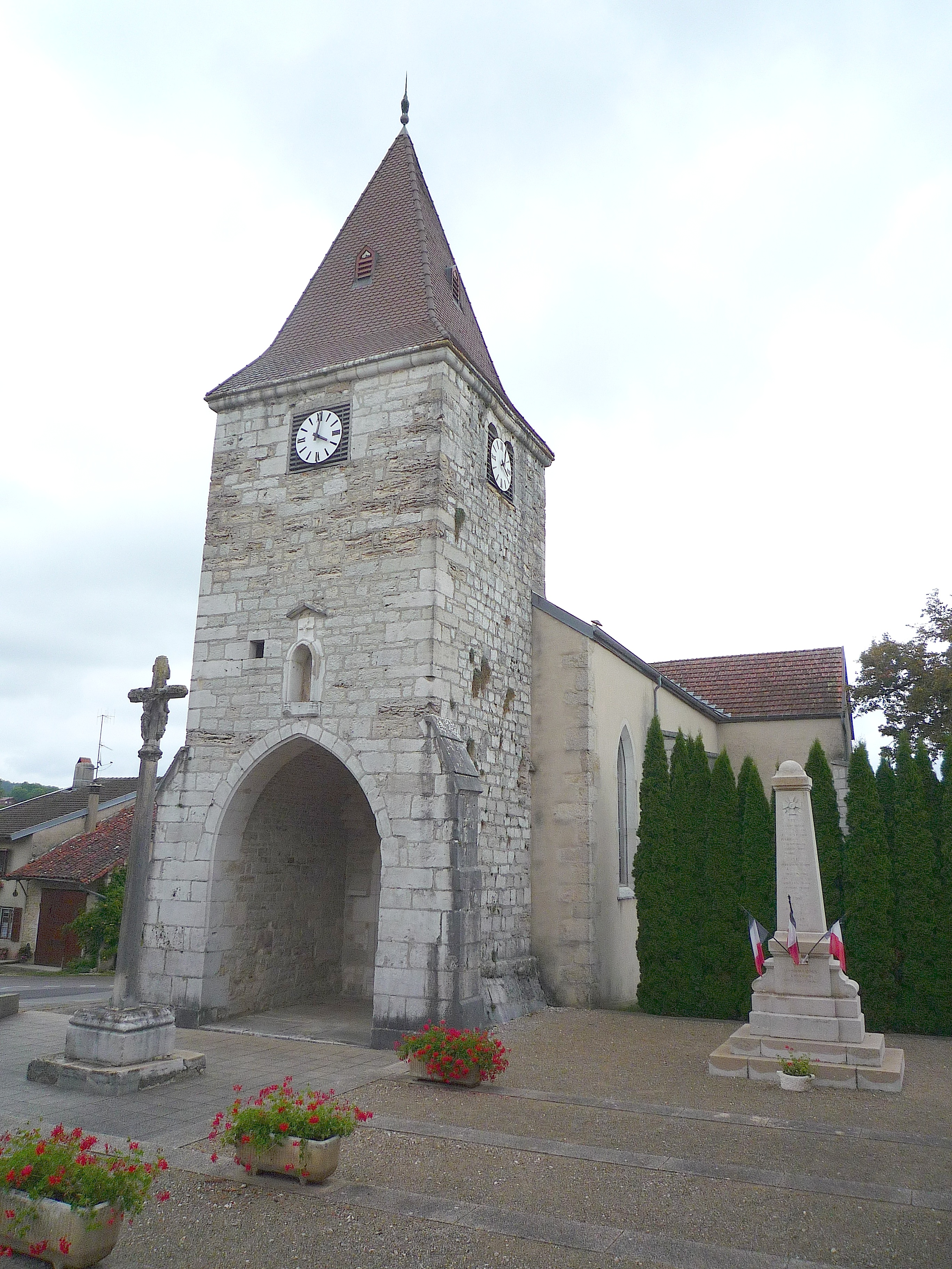 The Church of Aromas (Jura department, France) and the XVth century cross. September 2012